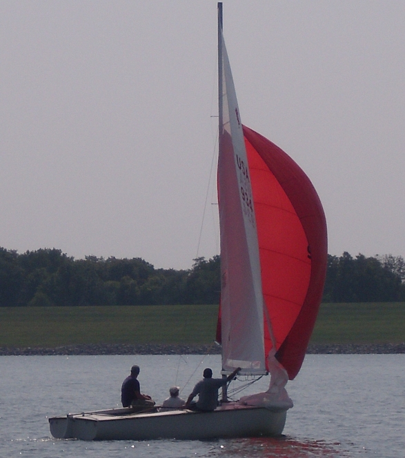 Highlander (dinghy) going down wind.